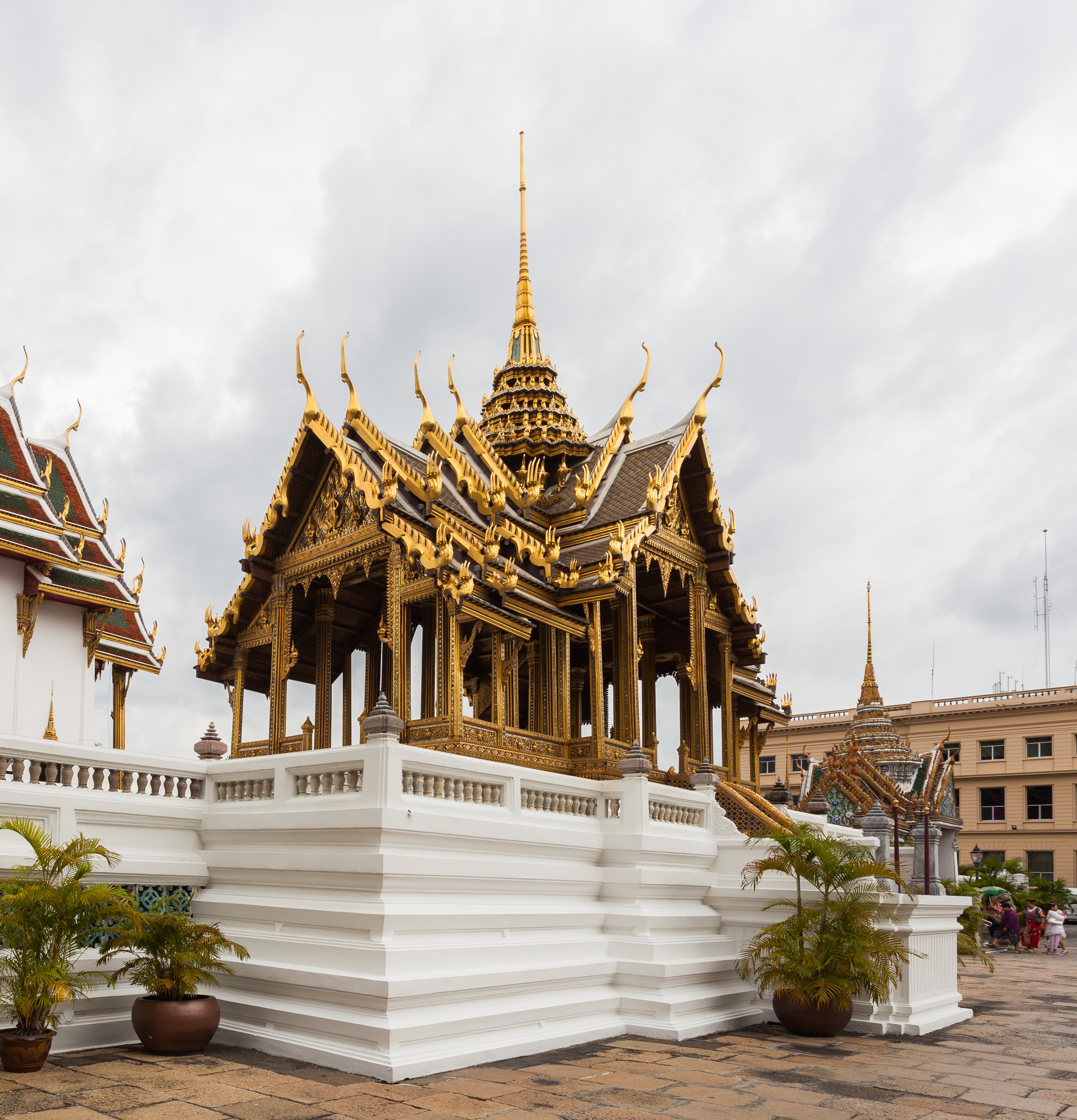 Gradn Palace, Bangkok, Thailand